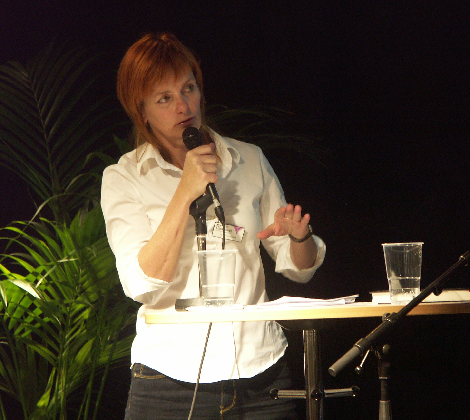 Swedish TV host and journalist Gunilla Kindstrand at the Gothenburg bookfair 2008.